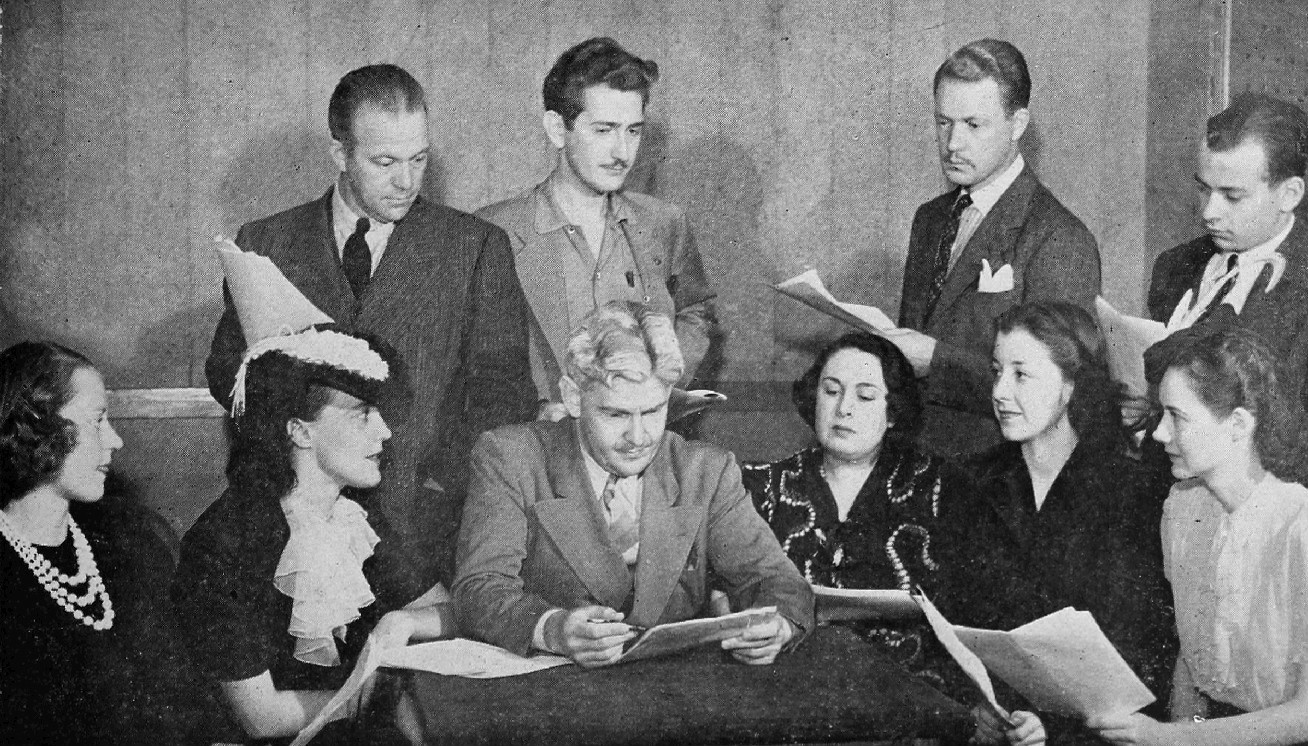 Cast of the radio program The Guiding Light in December 1940. Front row from left: Ruth Bailey (Rose Kransky), Gladys Heene (Torchy Reynolds), Dr. John Ruthledge, Mignon Schreiber (Mrs. Kransky), Muriel Bremner (Fredericka Lang), Betty Arnold (Iris Marsh), Back row from left: Bill Bouchey (Charles Cunningham), Paul Barnes (Jack Felzer), Phil Dakin (Ellis Smith), Seymour Young (Jacob Kransky). A search for renewal was done in publications for the years 1967 and 1968. There were no listings for the title Radio Varieties. There's no evidence of renewal for the magazine.